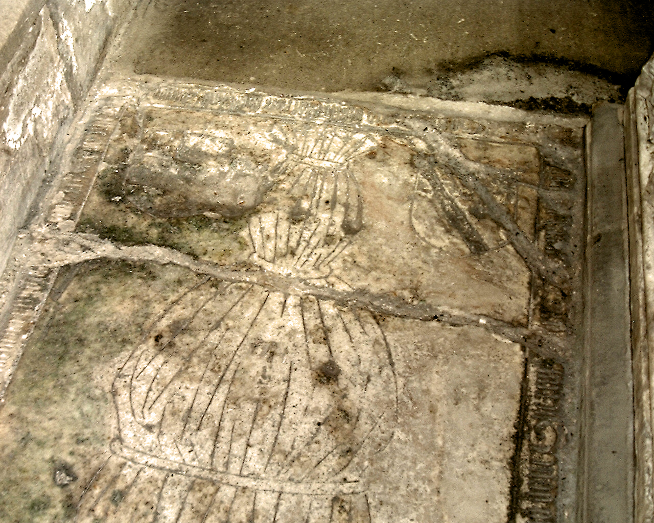 SS Mary and Barlok parish church, Norbury, Derbyshire: detail of the tomb of Elizabeth, wide of Ralph Fitzherbert (died 1491). Alabaster ledger stone incised with the image of Elizabeth Fitzherbert's corpse in a shroud.